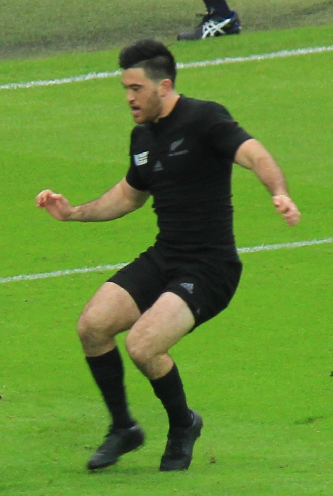 New Zealand international rugby union footballer Nehe Milner-Skudder playing in 2015 Rugby World Cup game New Zealand vs Argentina at Wembley Stadium in London.